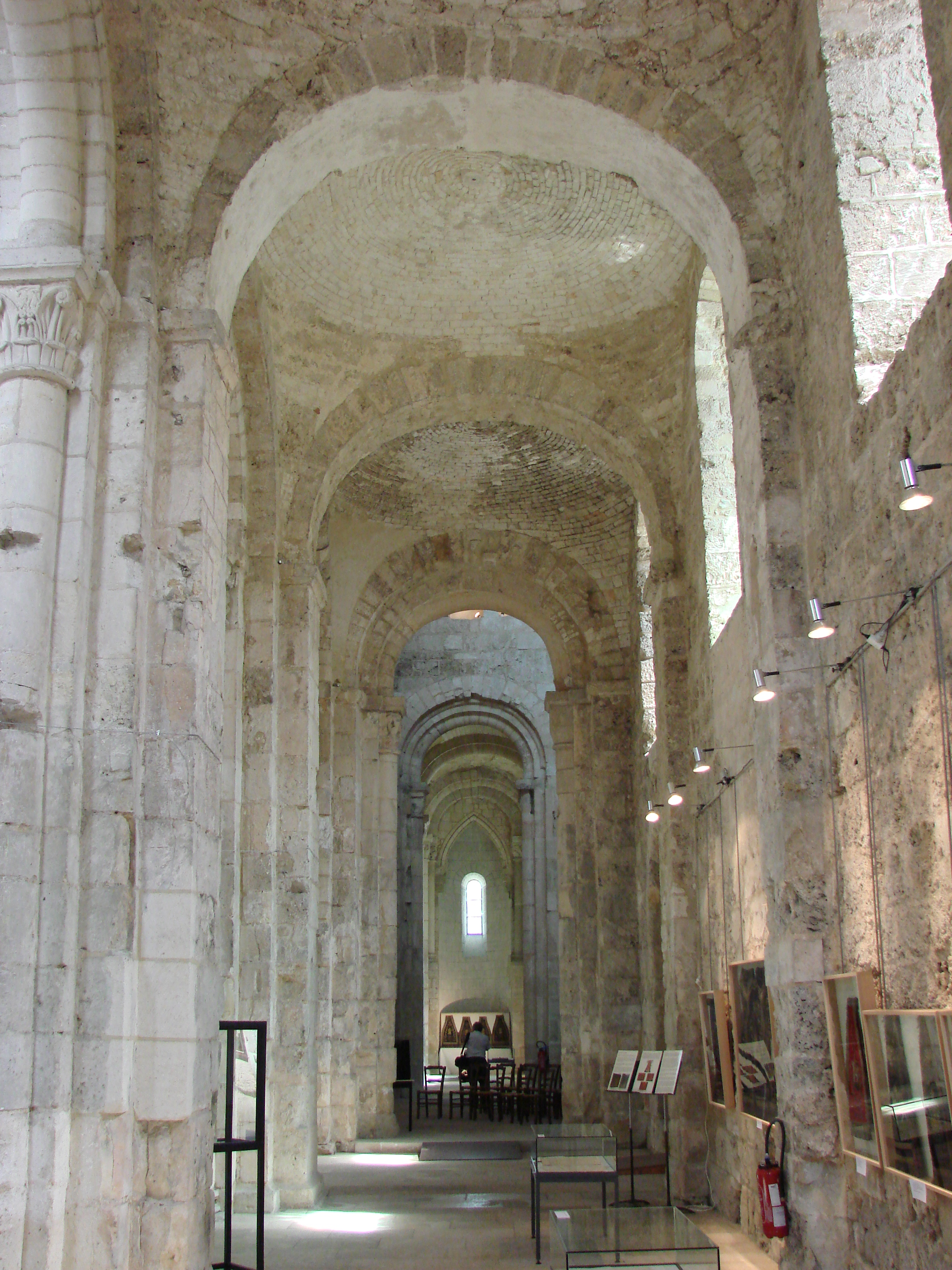 Notre-Dame abbey in Bernay (Eure), the southern collateral